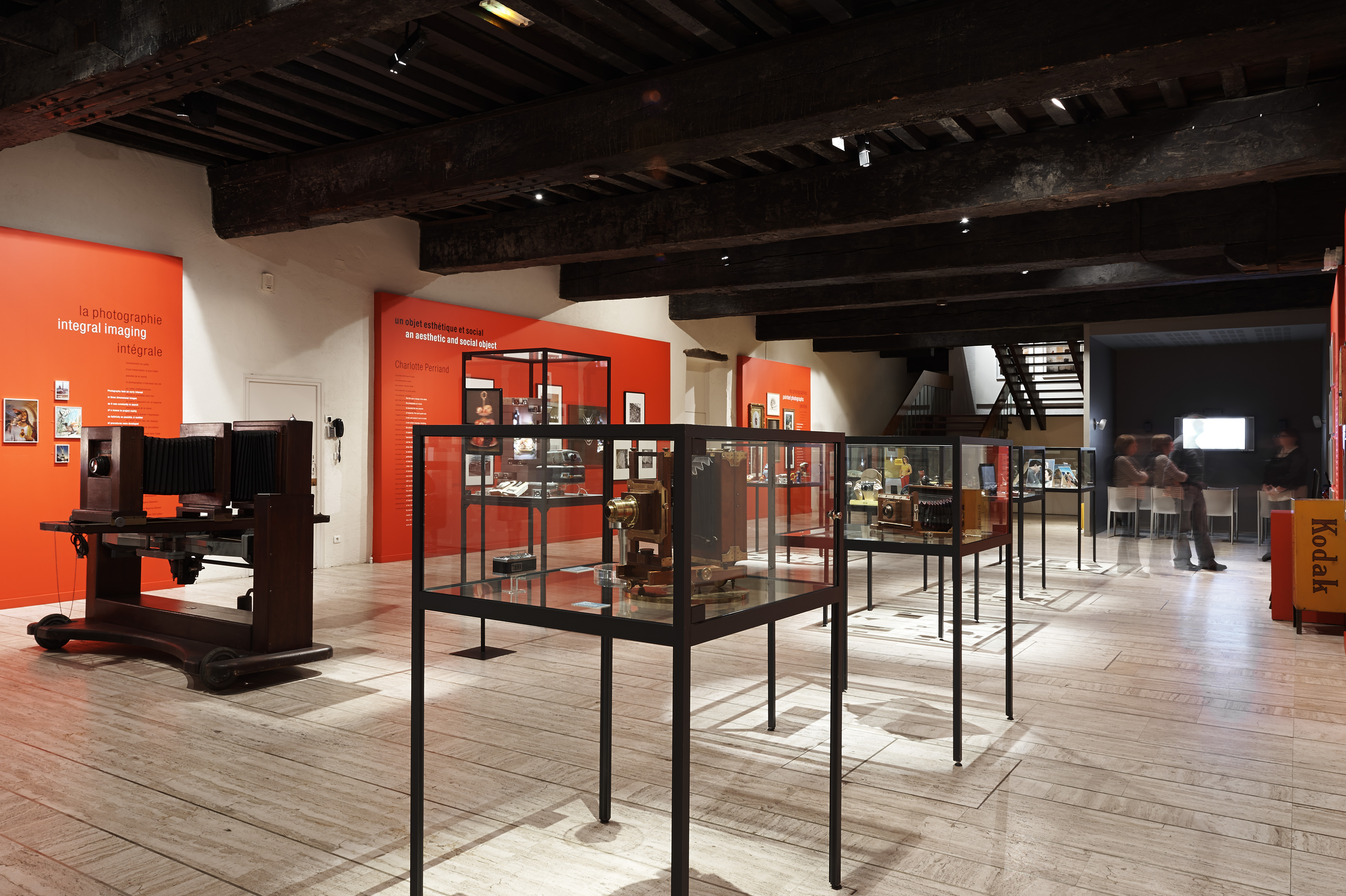 Salle Durville au Musée Nicéphore Niépce, 2013